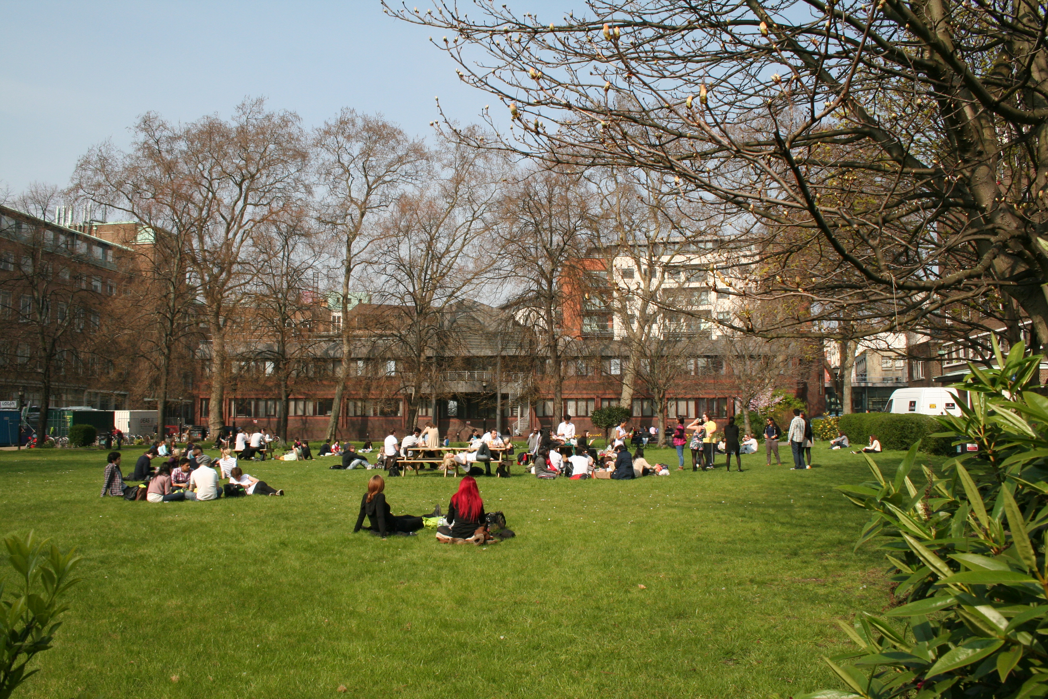 London EC1: Charterhouse campus of St. Bartholomew's Hospital Medical College